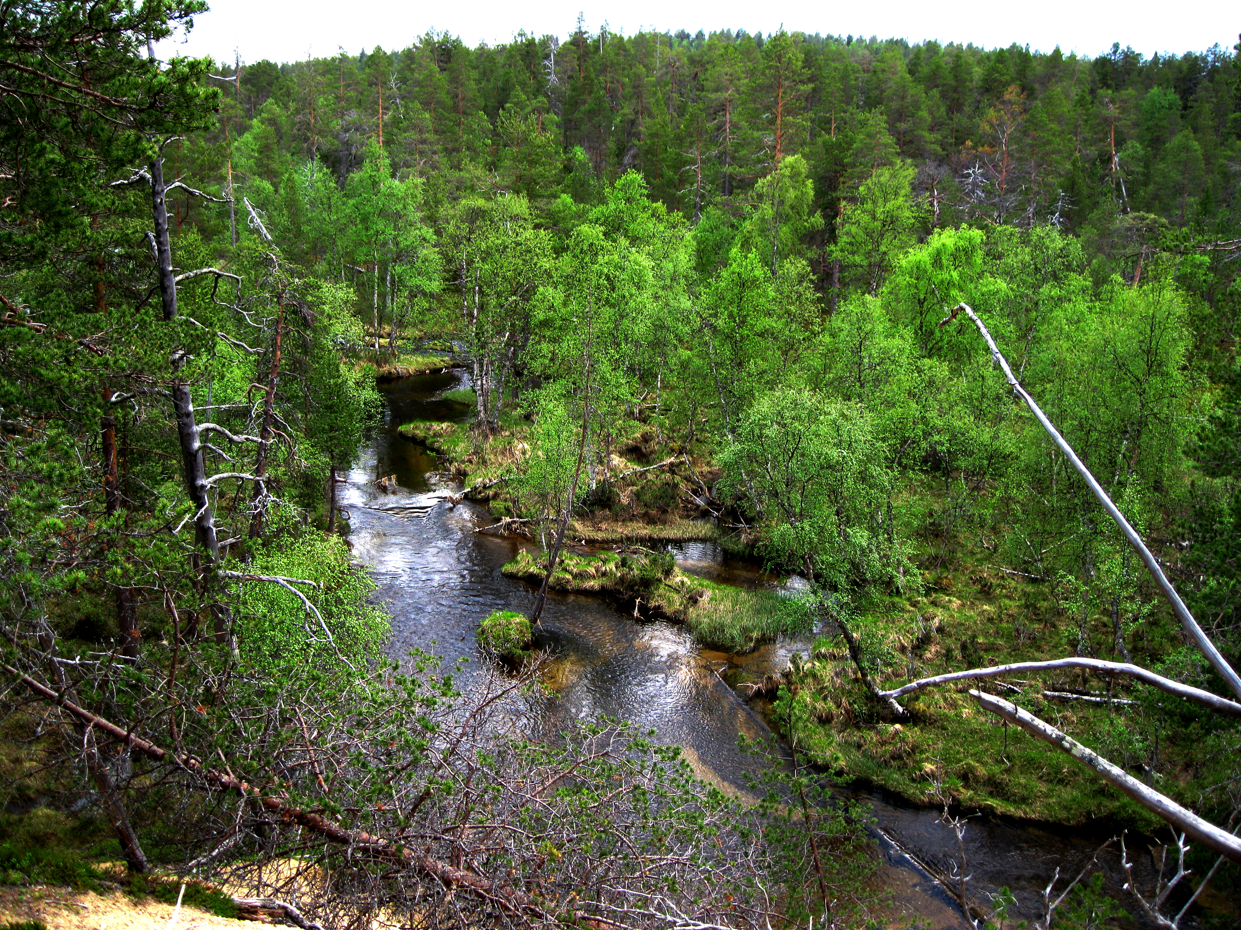 Stream in Tsarmitunturi Wilderness Area in June 2012.